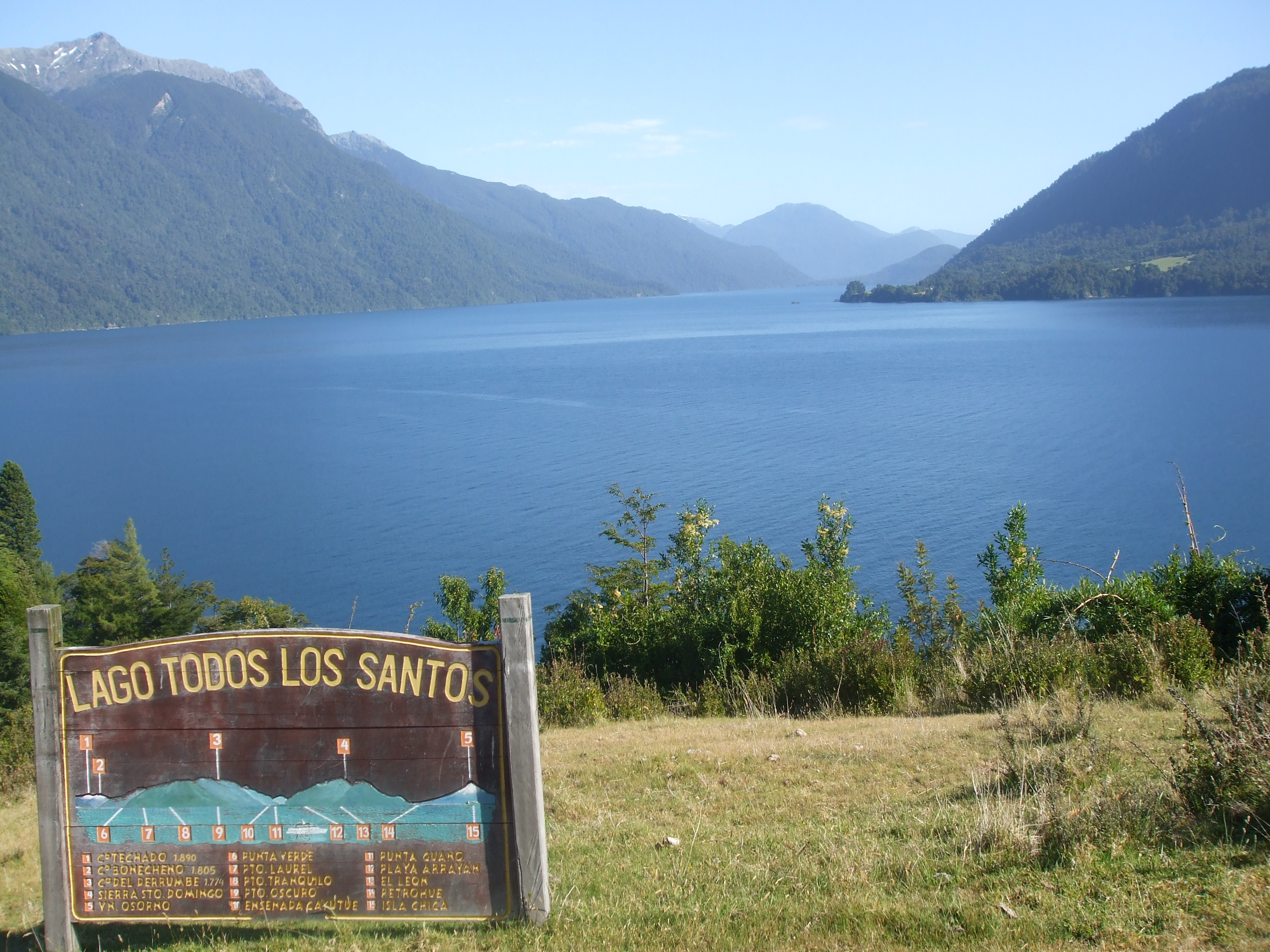 View from the island at the centre of the Lago de Todos los Santos into the southern branch of this south Chilean lake at the heart of the Vicente Pérez Rosales National Park. The legend is that Butch Cassidy and Sundance Kid passed the lake on their escape to Chile.